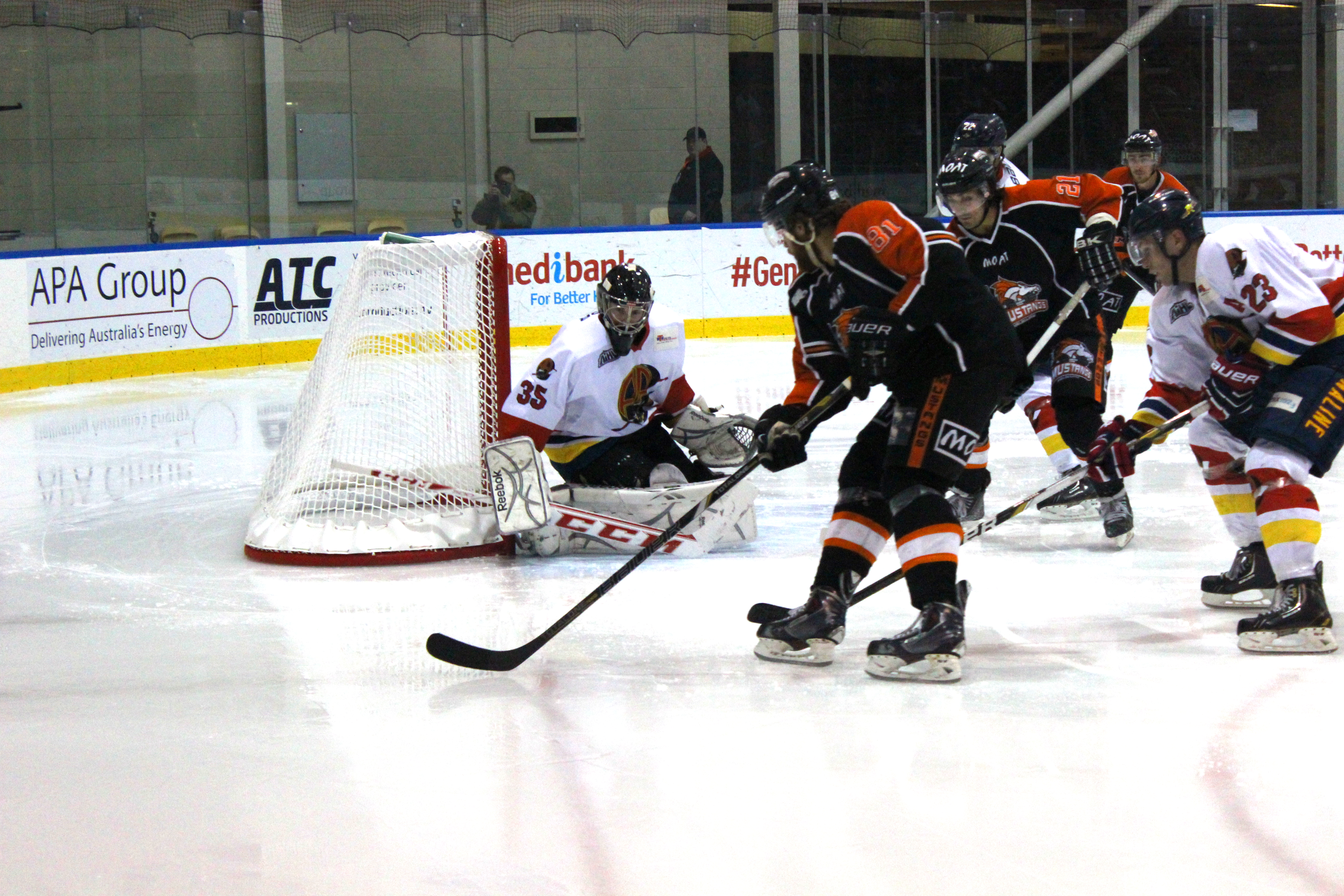 A game between the Melbourne Mustangs and Adelaide Adrenaline ice hockey teams in 2014 as part of the Australian Ice Hockey League. Other information I am happy for this image to be distributed with or without credit given.